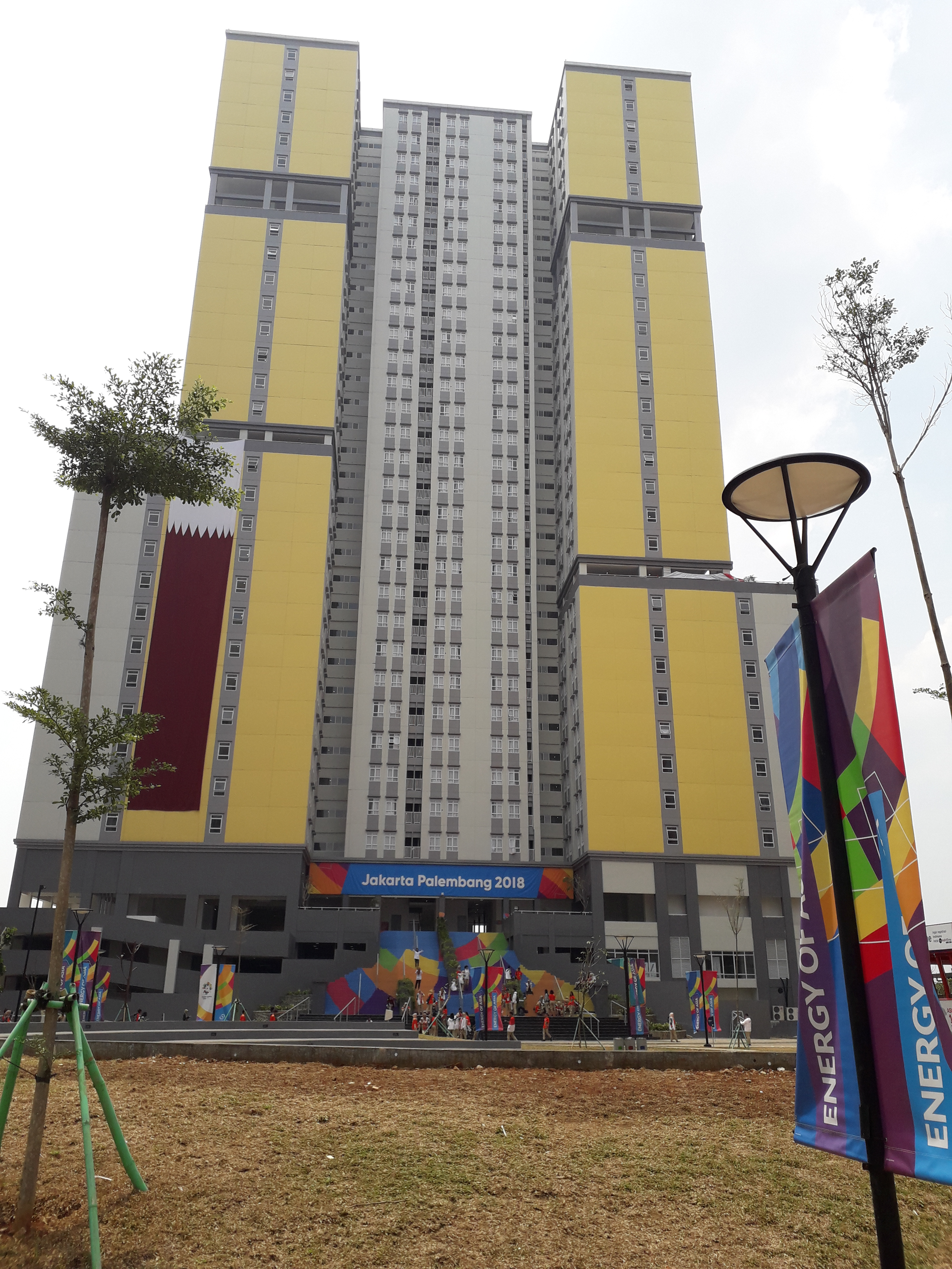 Athlete's Village (Wisma Atlet), home for all athletes while competing on 2018 Asian Games located in Kemayoran, Central Jakarta.